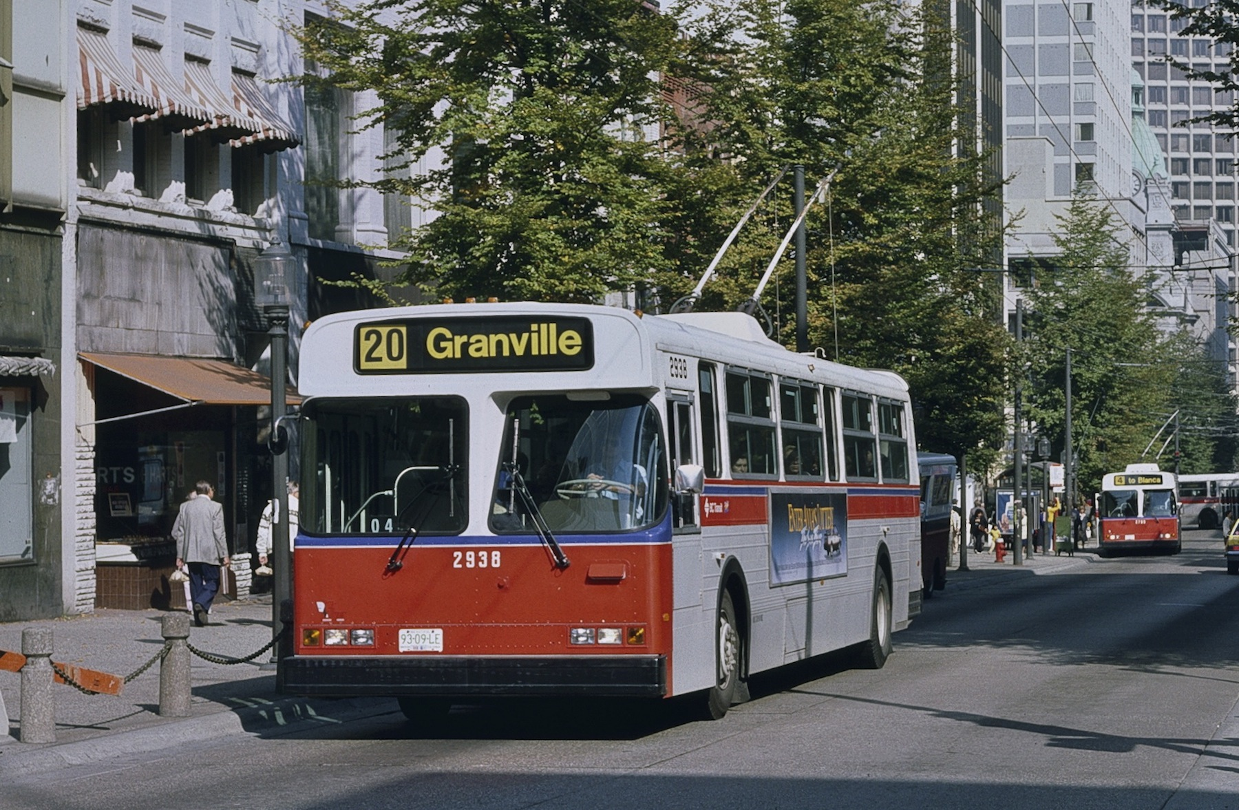 Vancouver trolleybus 2938, a Flyer E902 built in 1983, southbound on the Granville Mall at Dunsmuir Street, on route 20-Granville. That route was renumbered 8 in September 1997 and renumbered 10 in September 2003. In the background, another E902 trolleybus is in service on route 4-Fourth to Blanca Street.